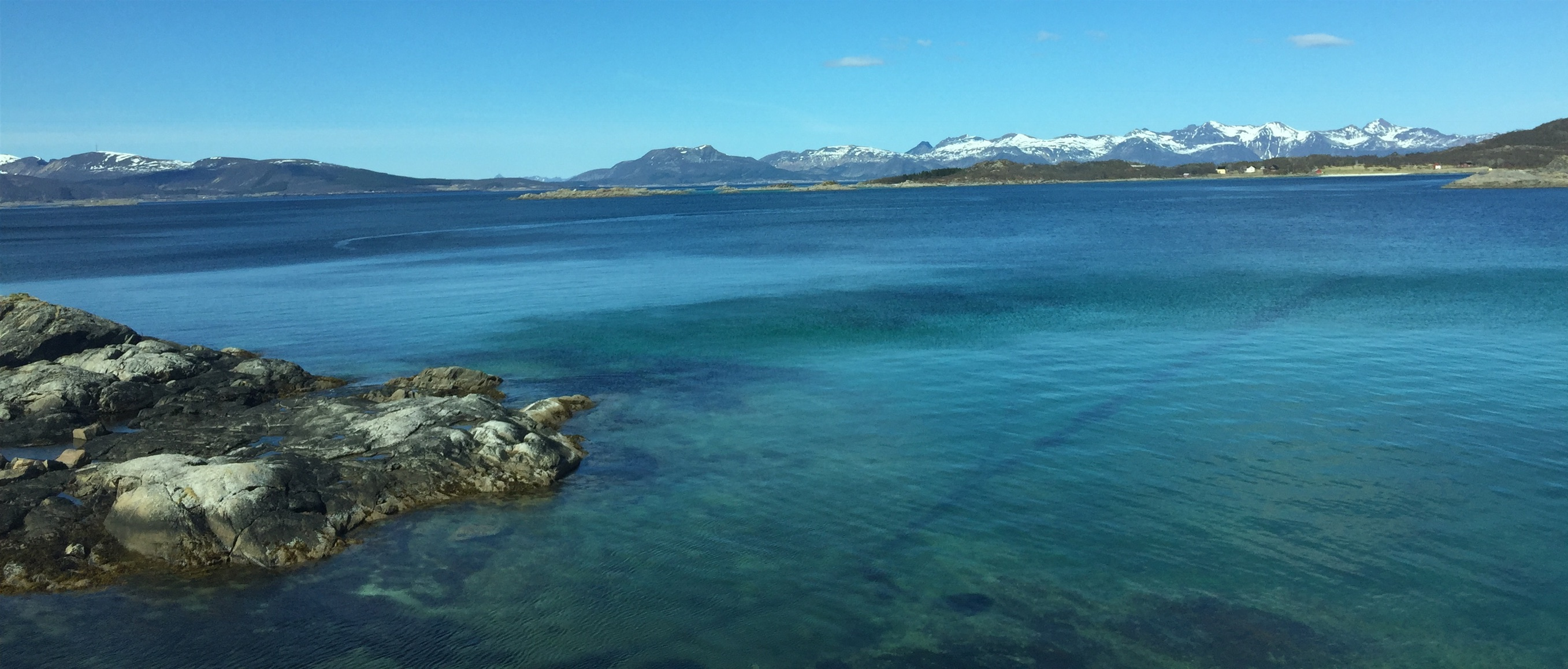 Tengelfjord in Nordland Kurdî: Tengelfjord li Nordland ê